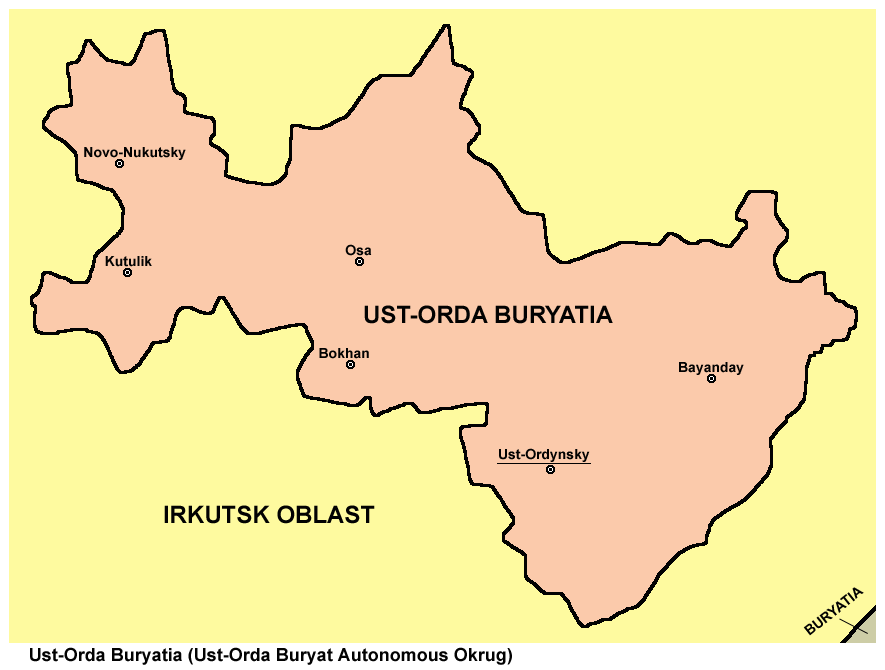 Map of Ust-Orda Buryatia (Ust-Orda Buryat Autonomous Okrug) in Russia, until 2008.